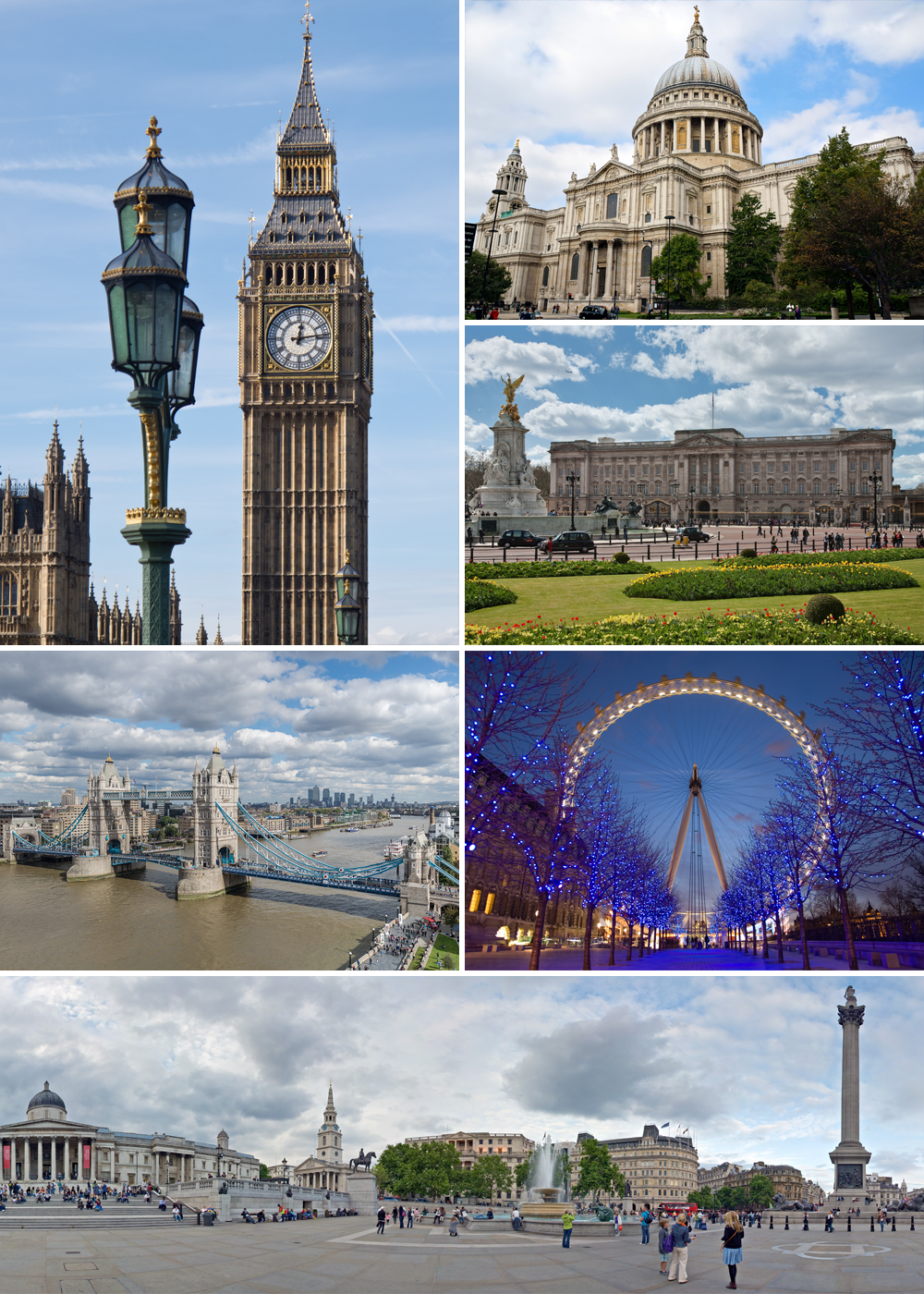 Collage to London Page from photos